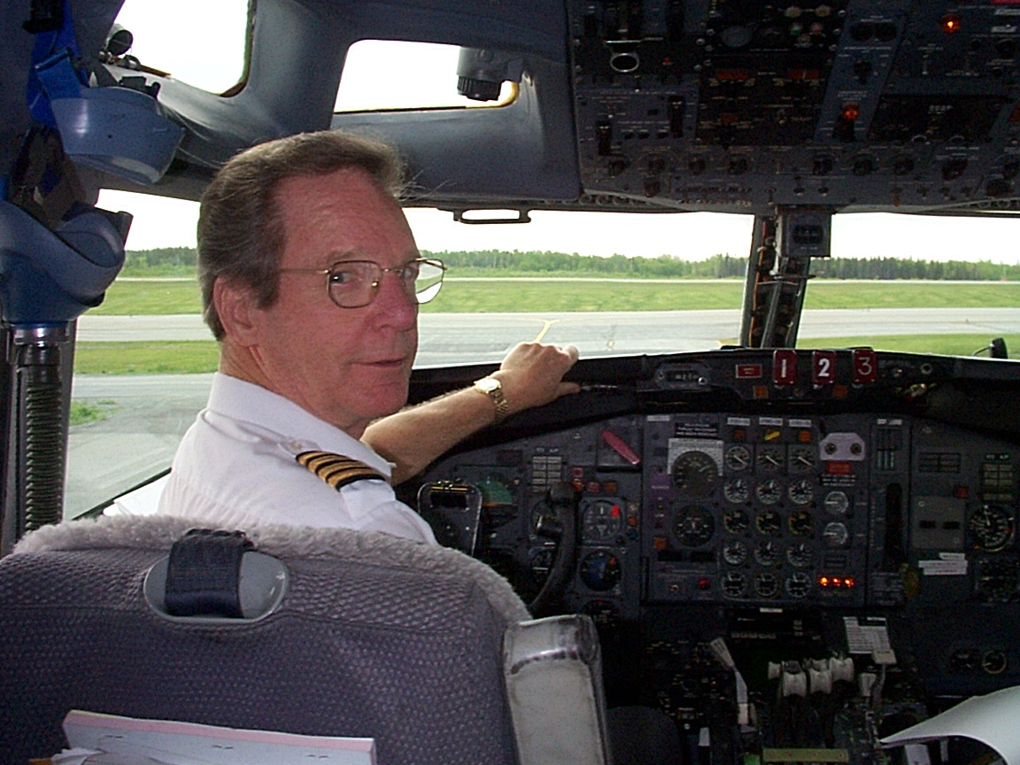 Flightdeck of a Boeing 727